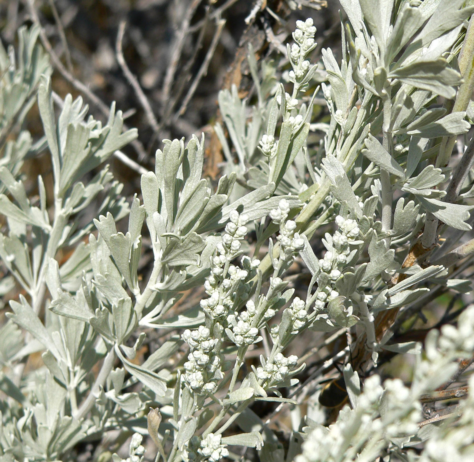 Artemisia tridentata in Red Rock Canyon, Spring Mountains, southern Nevada